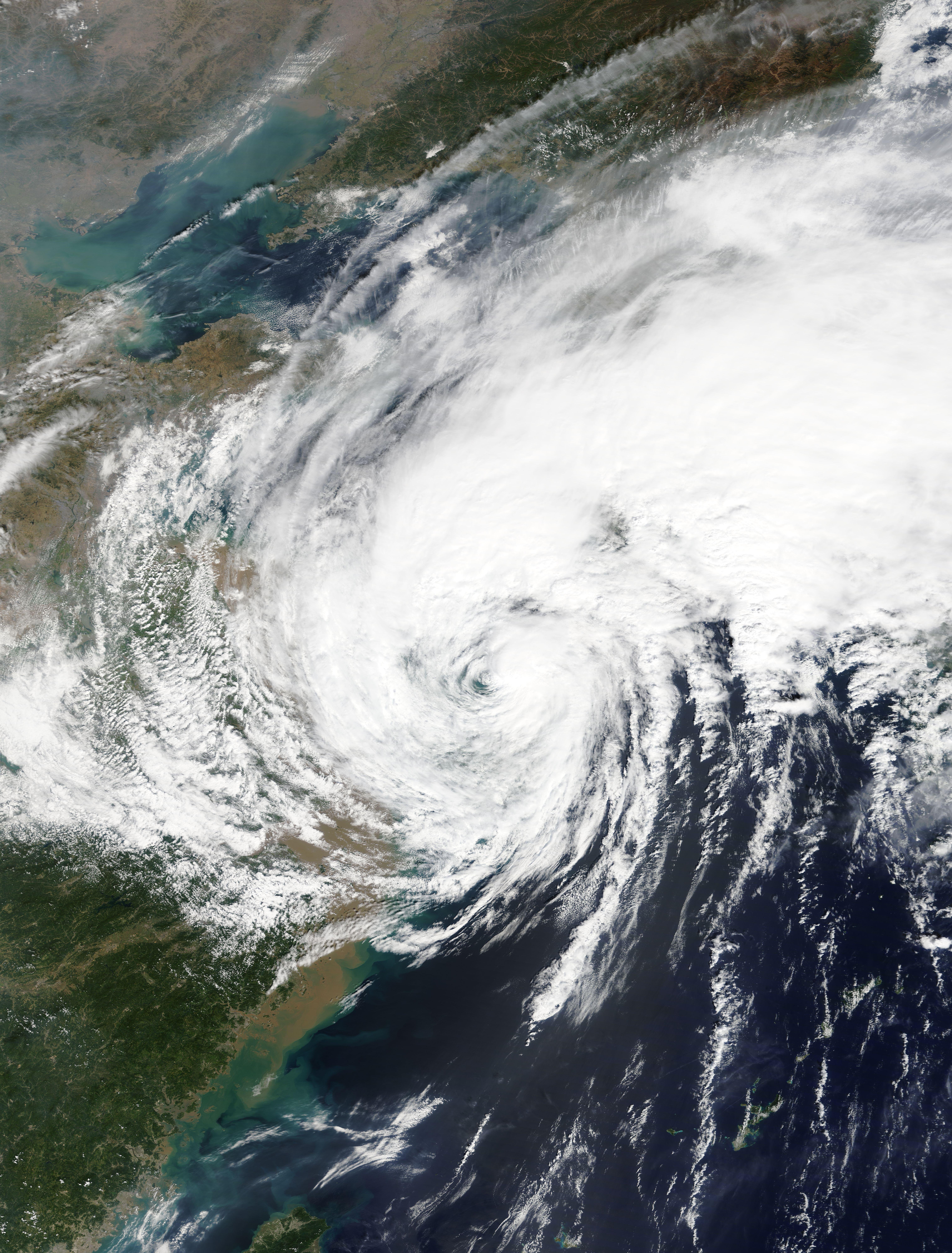 Severe Tropical Storm Mitag weakening in the East China Sea on October 2, 2019